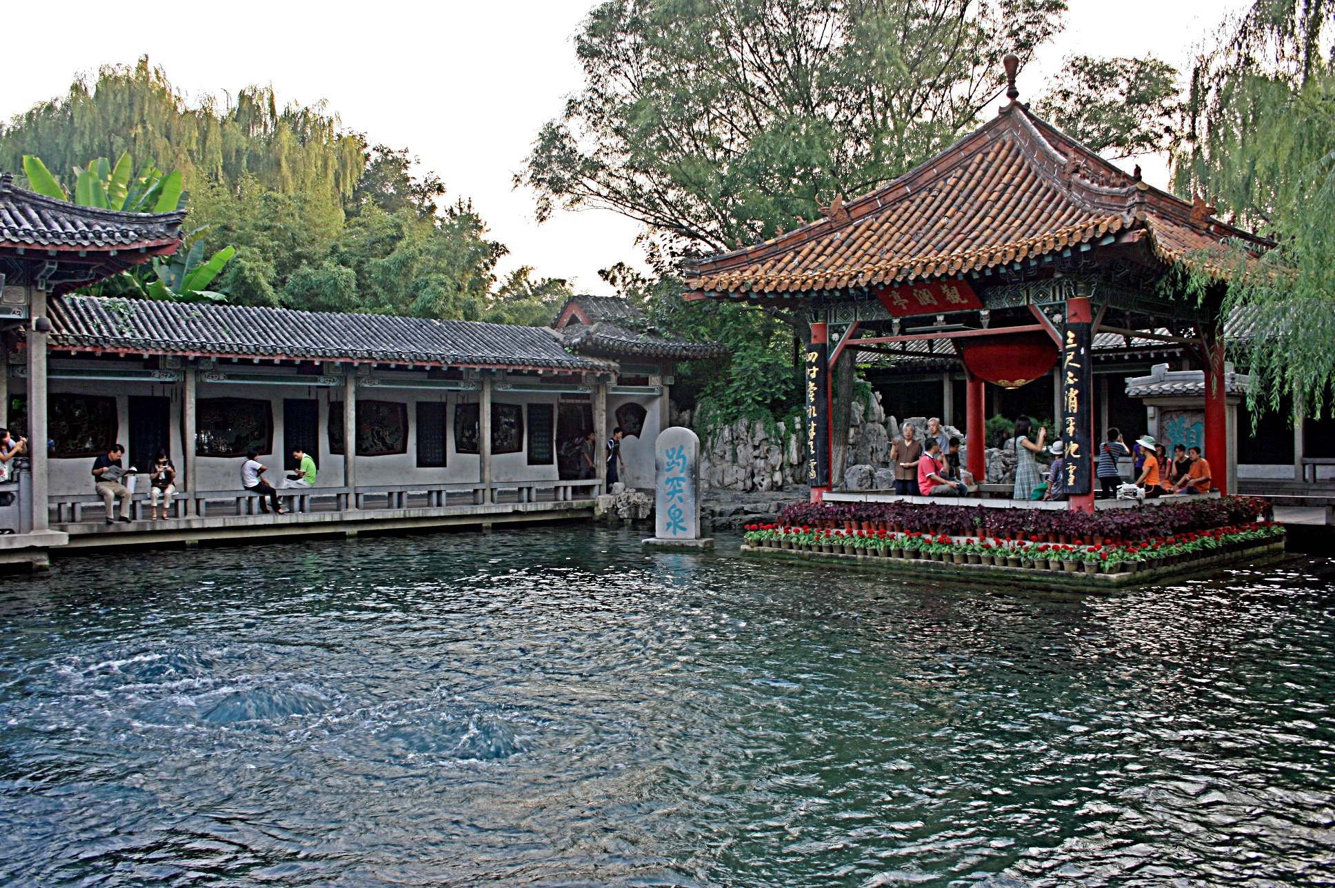 Photograph of the spring pool of the Baotu Spring in Baotu Spring Park, Jinan, Shandong, China.